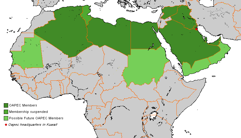 Oapec members... with current suspended and possible members